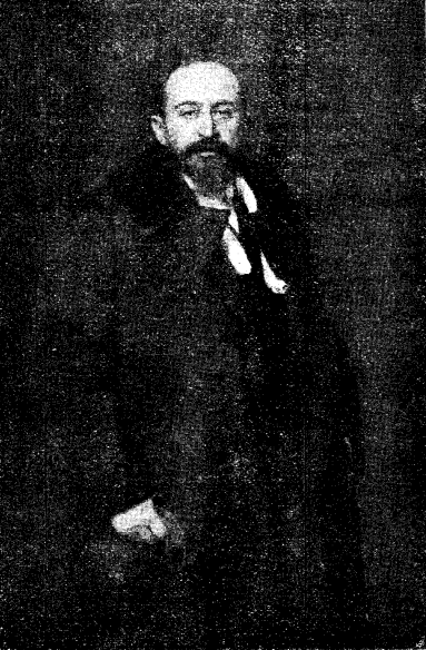 Jakob Pál